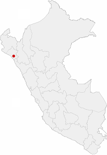 Location of the City of Chiclayo in Peru (map)